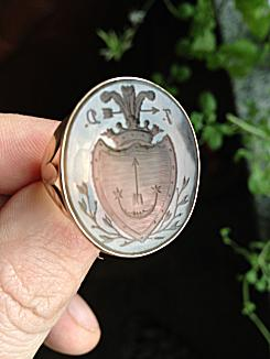 Gen. Jozef Dwenicki signet ring.